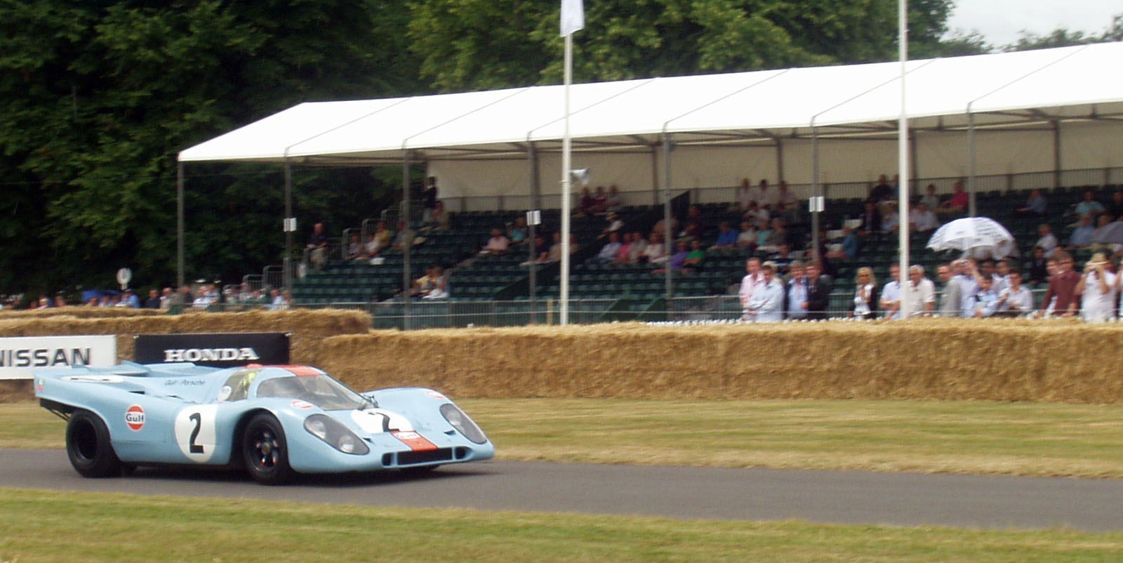 1970 Gulf Porsche 917 on the hillclimb at the 2006 Goodwood Festival of Speed